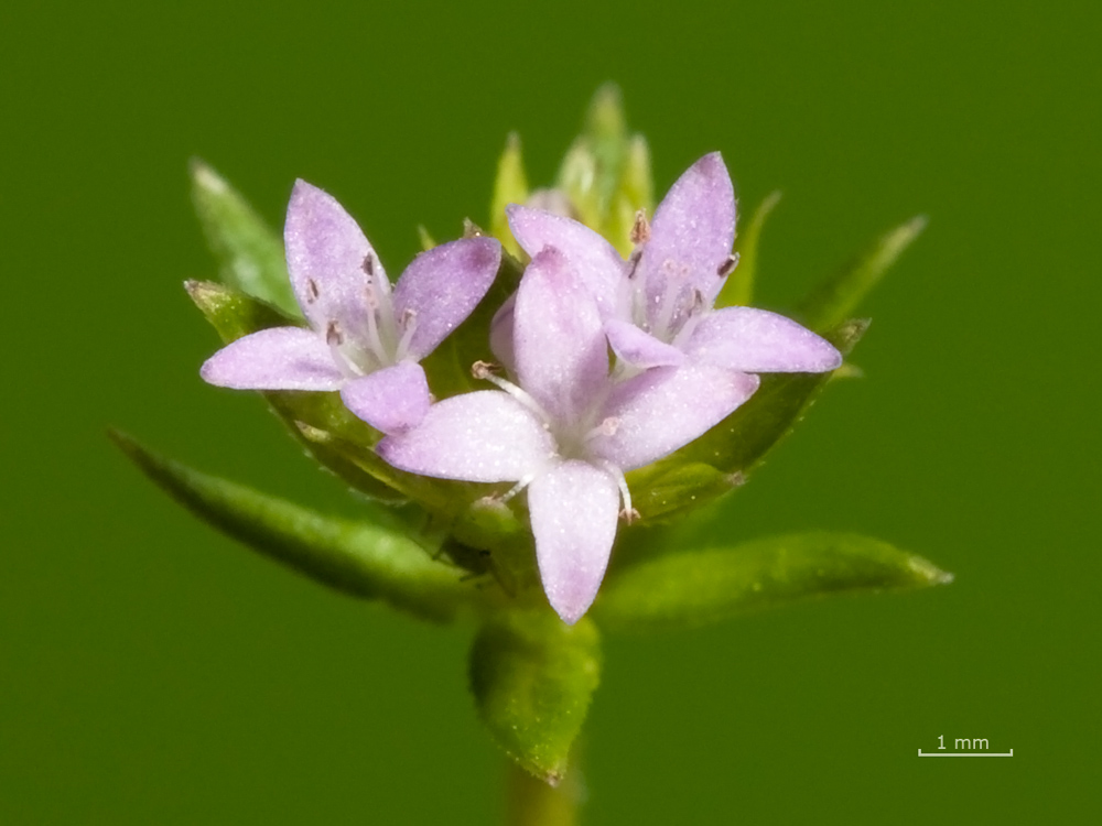 Field Madder (Sherardia arvensis) in Nashville, Tennessee